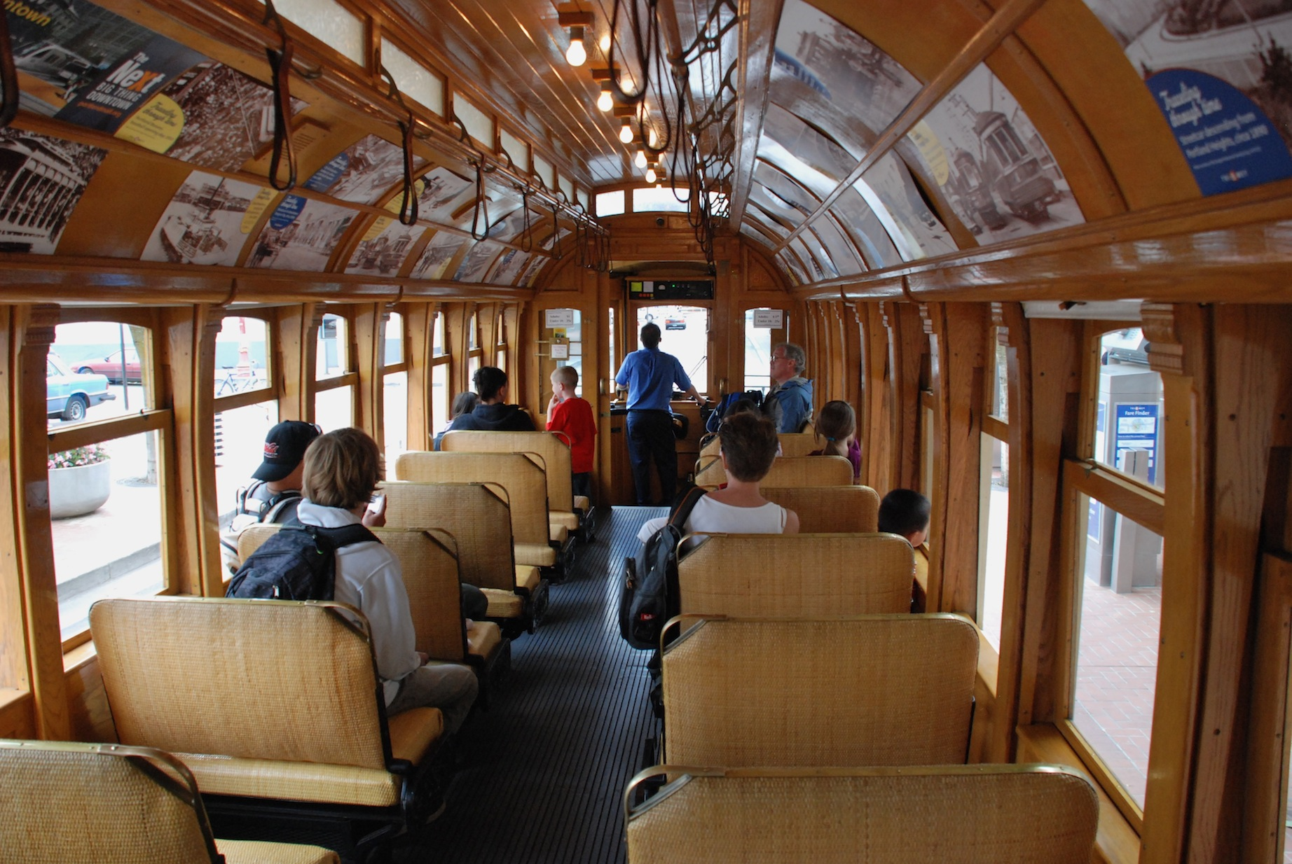 Interior view of Portland Vintage Trolley car 512, a replica of a 1903 Brill trolley/streetcar built in 1992 by the Gomaco Trolley Company. In 2013/14, this car was sold to a group in St. Louis for use on the Loop Trolley, and its interior seating was completely replaced and reconfigured, as seen in the photo linked here.